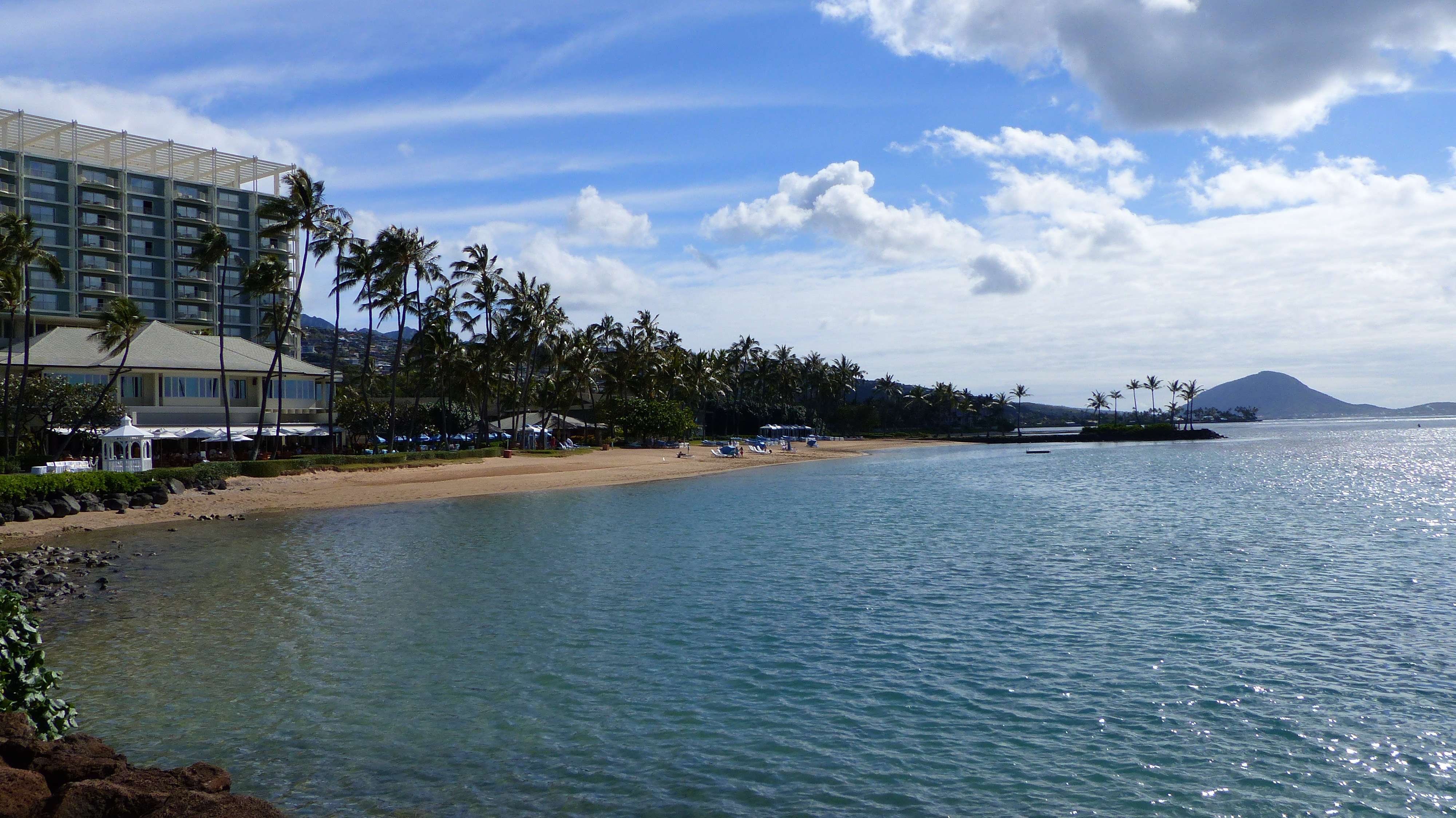 Kahala Hotel & Resort: Beach area